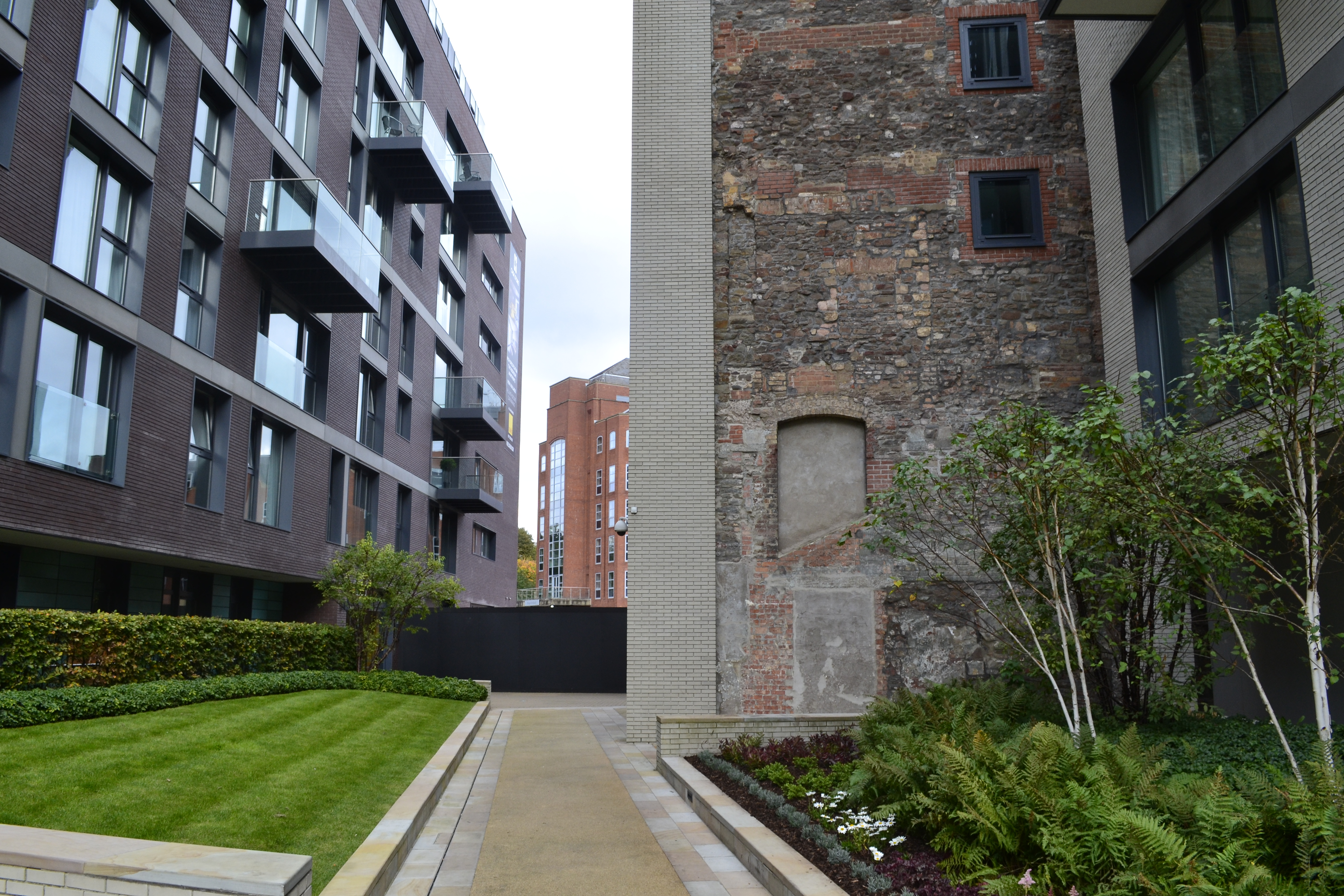 21st century development which incorporates the regeneration of historic brewery buildings along the floating harbour